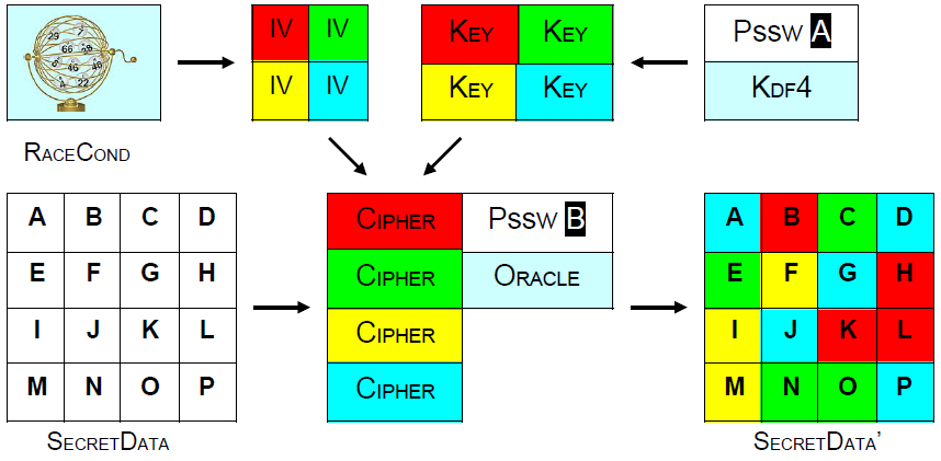 OpenPuff v3.30 Architecture - 10